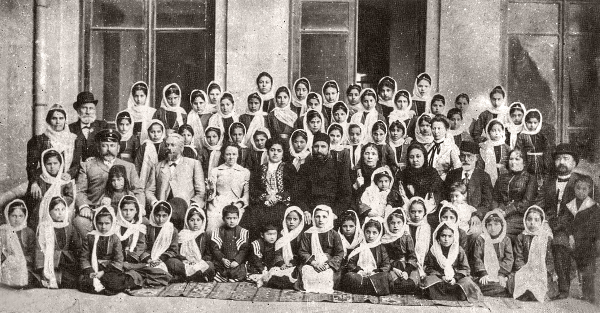 Tagiyev with schoolgirls of the first muslim school for girls